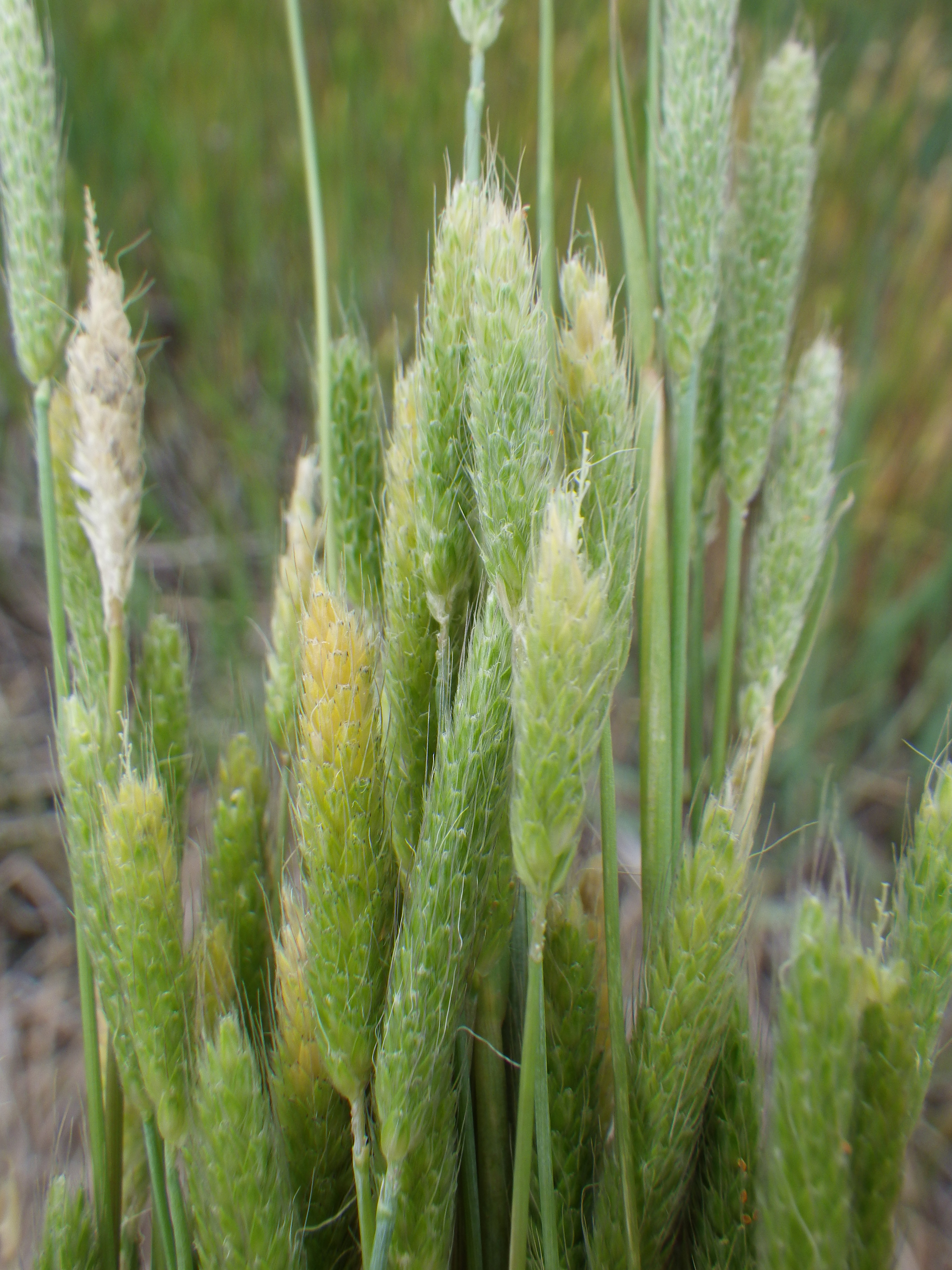 The narrowly cylindrical inflorescence combined with very small anthers and awns the protrude at least a couple of millimeters from the lemma tip are characteristic of this species.